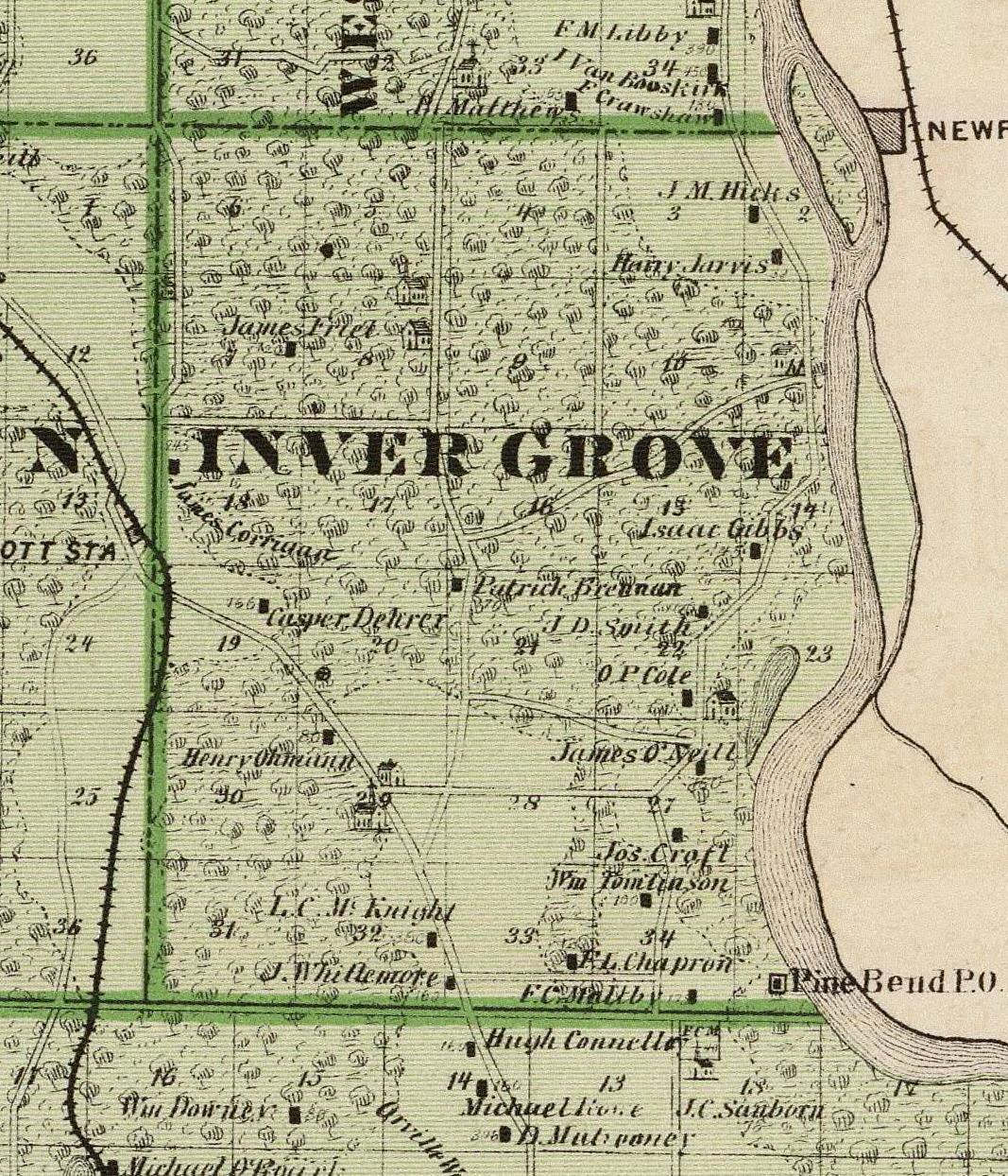 An 1874 map of Dakota County, complete with the very northern tip ,which belongs to Ramsey County today.